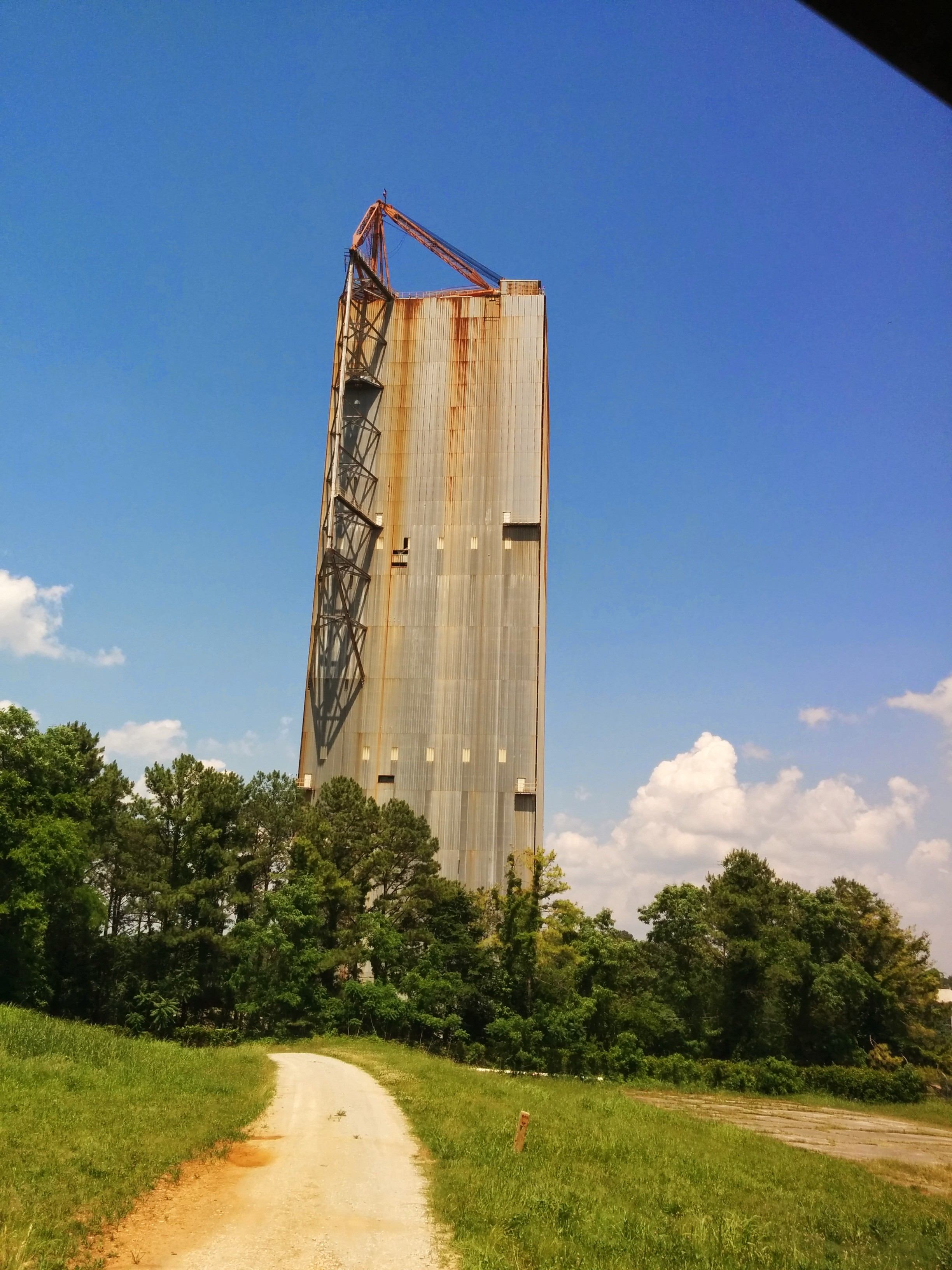 This was taken from the bus tour of the Marshall Space Flight Center.